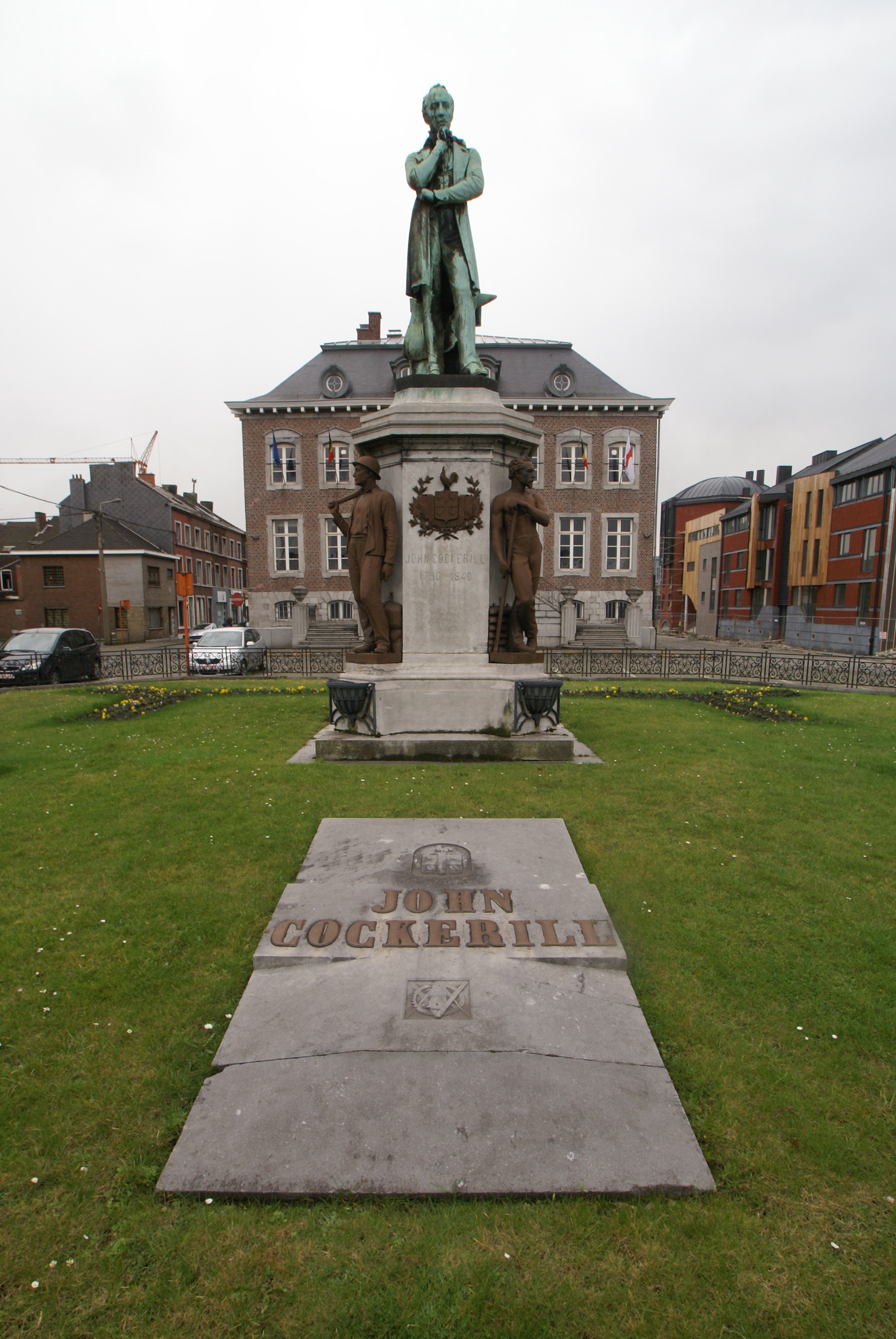 Statue and tomb of John Cockerill in front of the City Hall of Seraing (Belgium) - Estàtua i tomba d'en John Cockerill davant la casa de la vila de Seraing (Bèlgica)